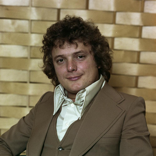 Portrait of Braulio at the day of the Eurovision Song Contest 1976